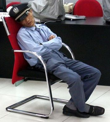 Security guard sleeping on duty. [1]